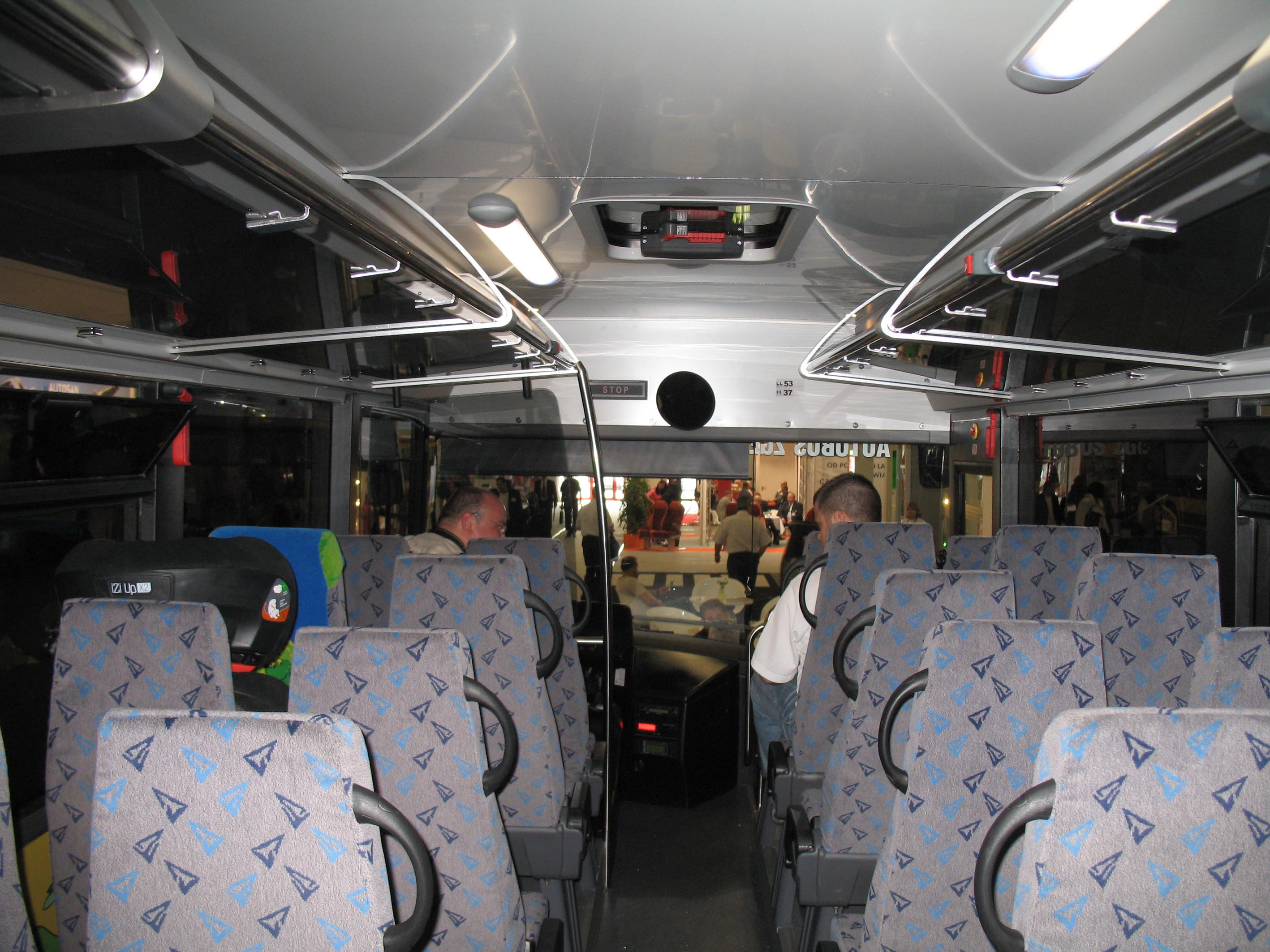 Solaris InterUrbino 12 intercity bus (prototype) inside in Kielce, Poland. Built 2009. Transexpo 2009.